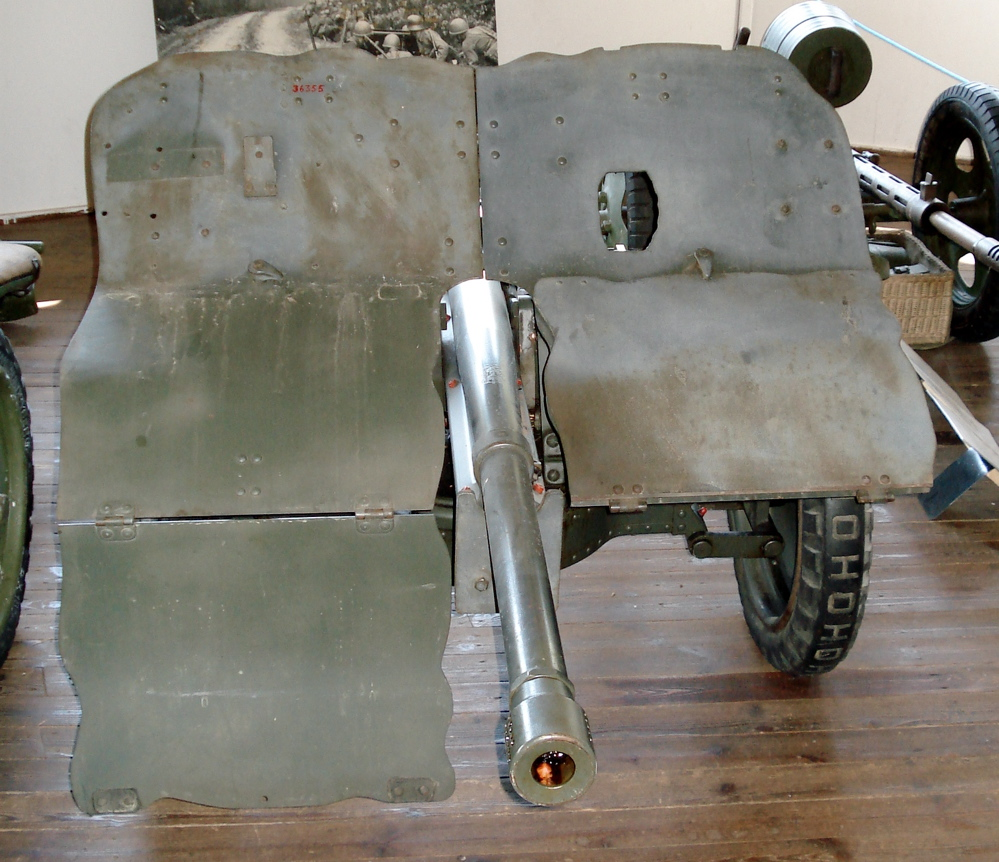 Swedish Bofors 37 mm anti-tank gun, displayed in Finnish Tank Museum (Panssarimuseo) in Parola. This image shows the gun sight. Photo taken on July 14, 2006. Source: Photo by me, User:Balcer.